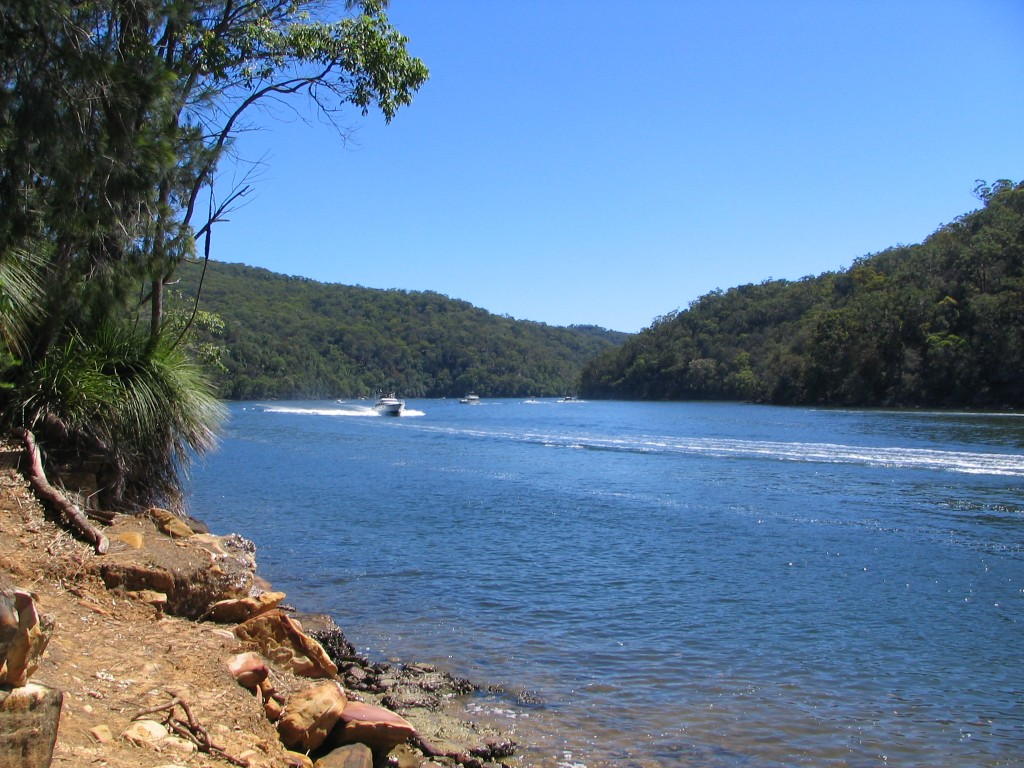 Cowan Creek, Ku-ring-gai Chase National Park